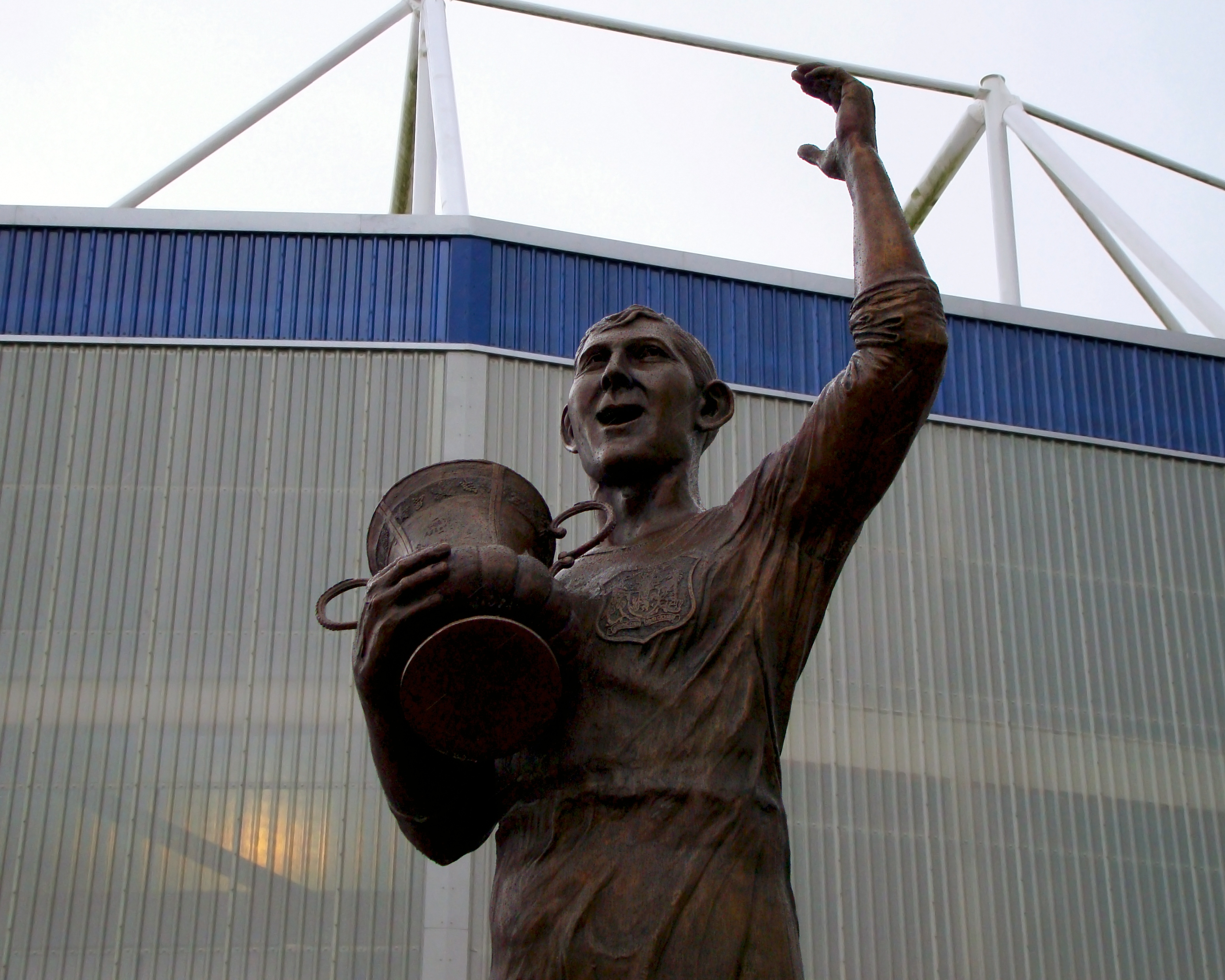 Fred Keenor statue outside Cardiff City Stadium.